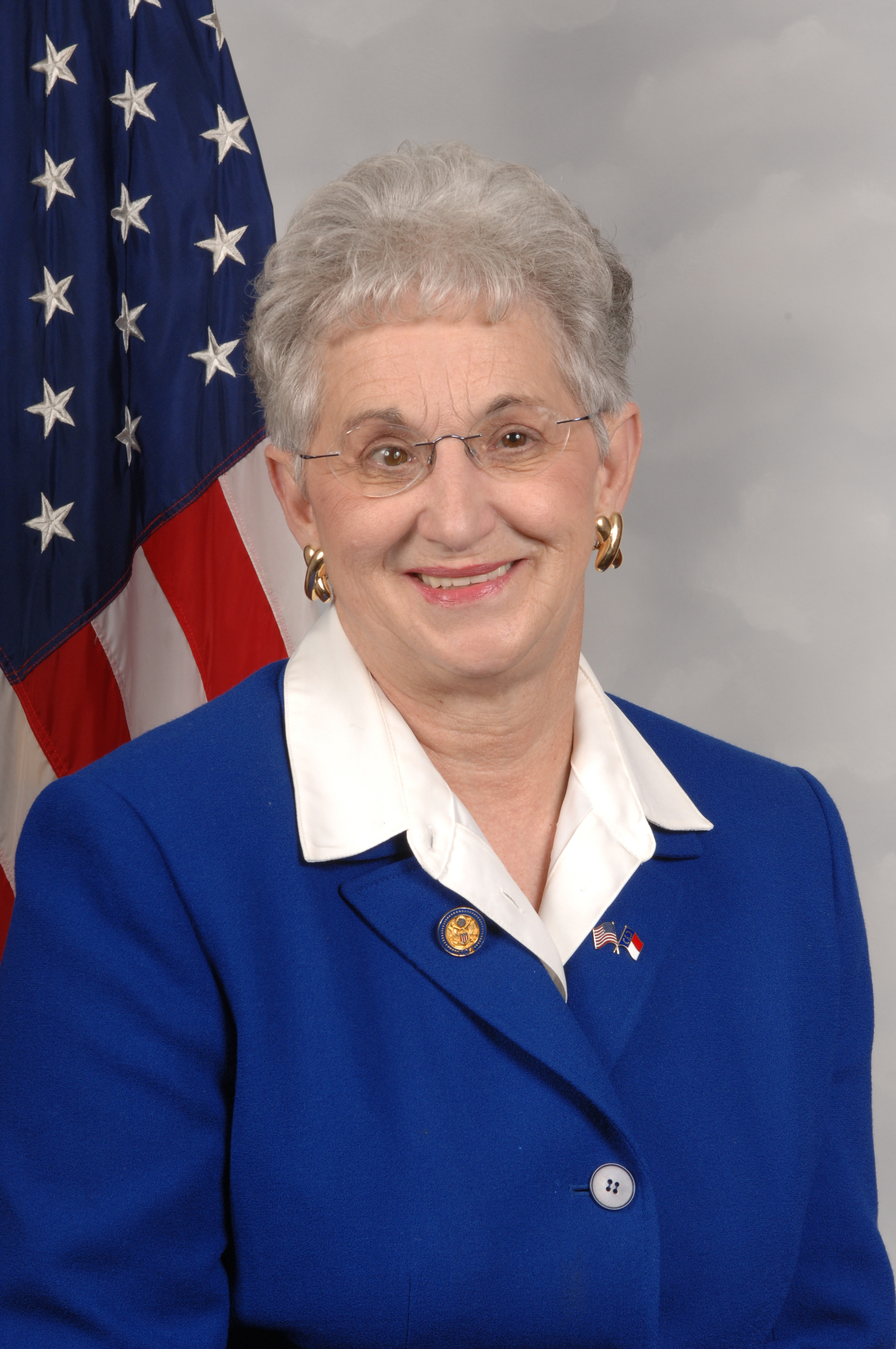 Virginia Foxx, member of the United States House of Representatives.